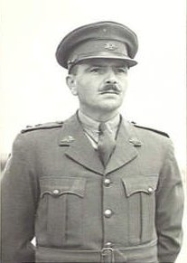 LIEUTENANT COLONEL B. EVANS, COMMANDING OFFICER OF THE 2/23RD AUSTRALIAN INFANTRY BATTALION WHO WAS AWARDED THE DISTINGUISHED SERVICE ORDER.